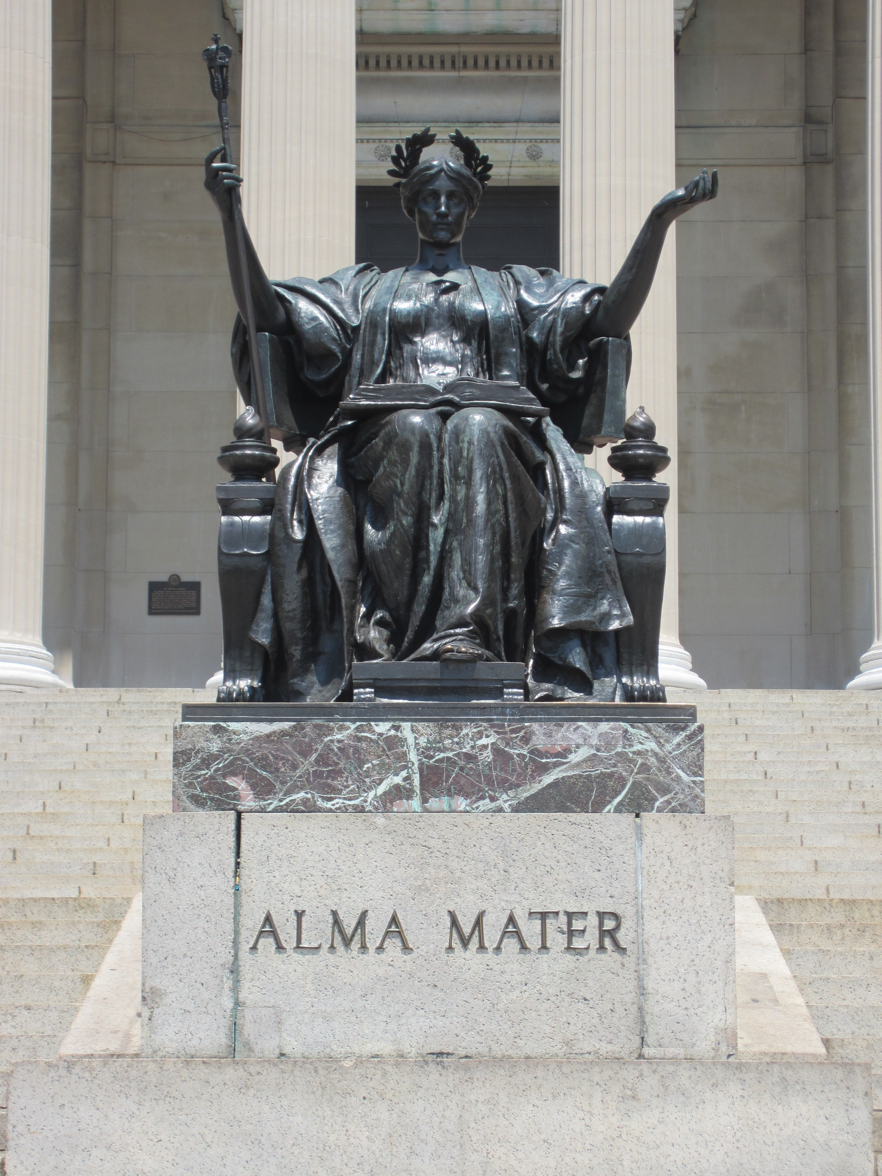 Columbia University, New York City (June 2014)